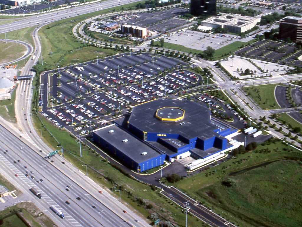 IKEA, Schaumburg, Chicago, Illinois, USA.